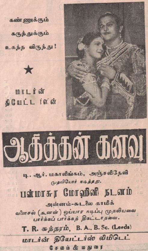 Poster for the 1948 South Indian Tamil film Adhithan Kanavu